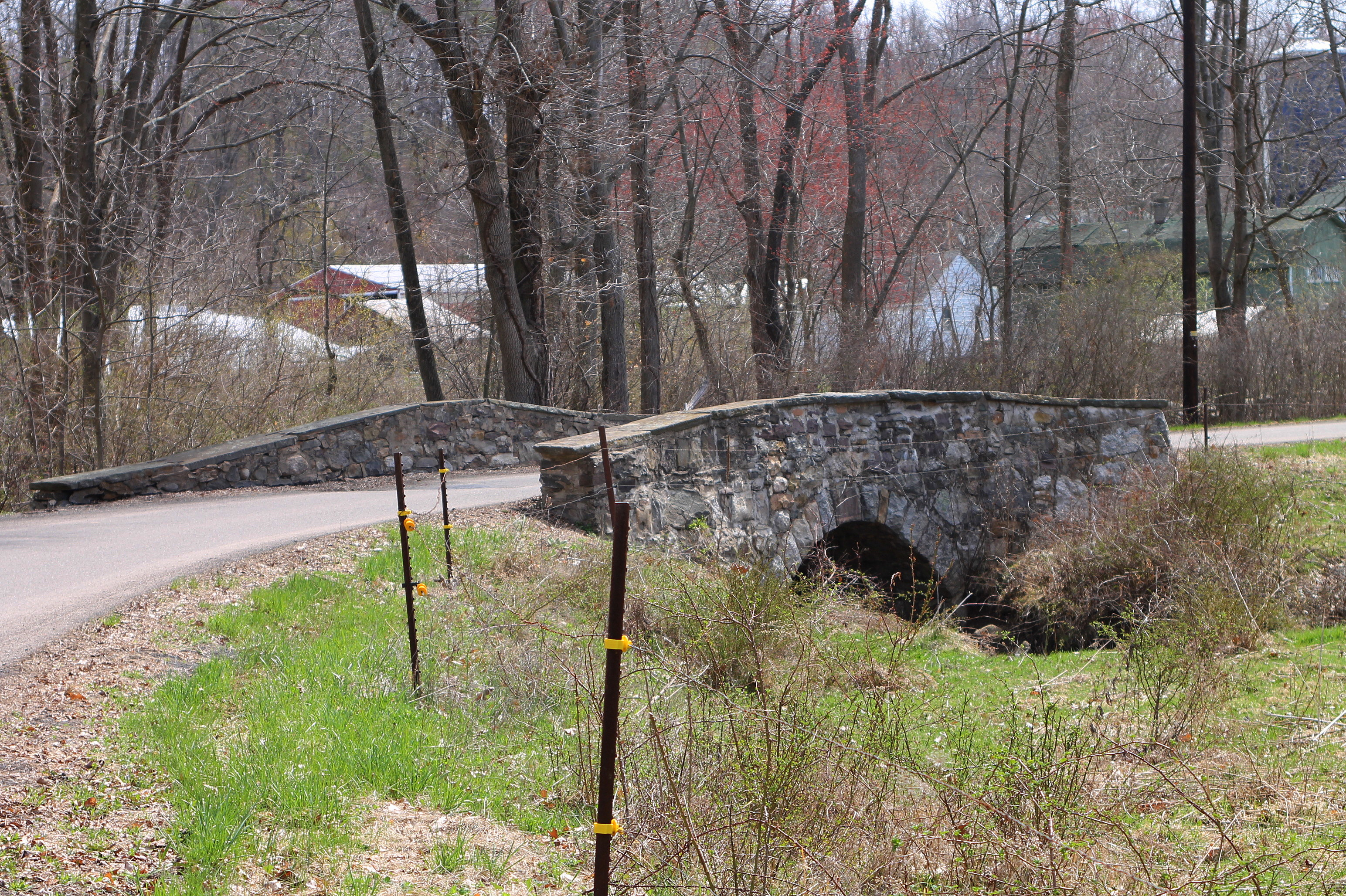 Stone bridge over Walker Run, a tributary of the Susquehanna River